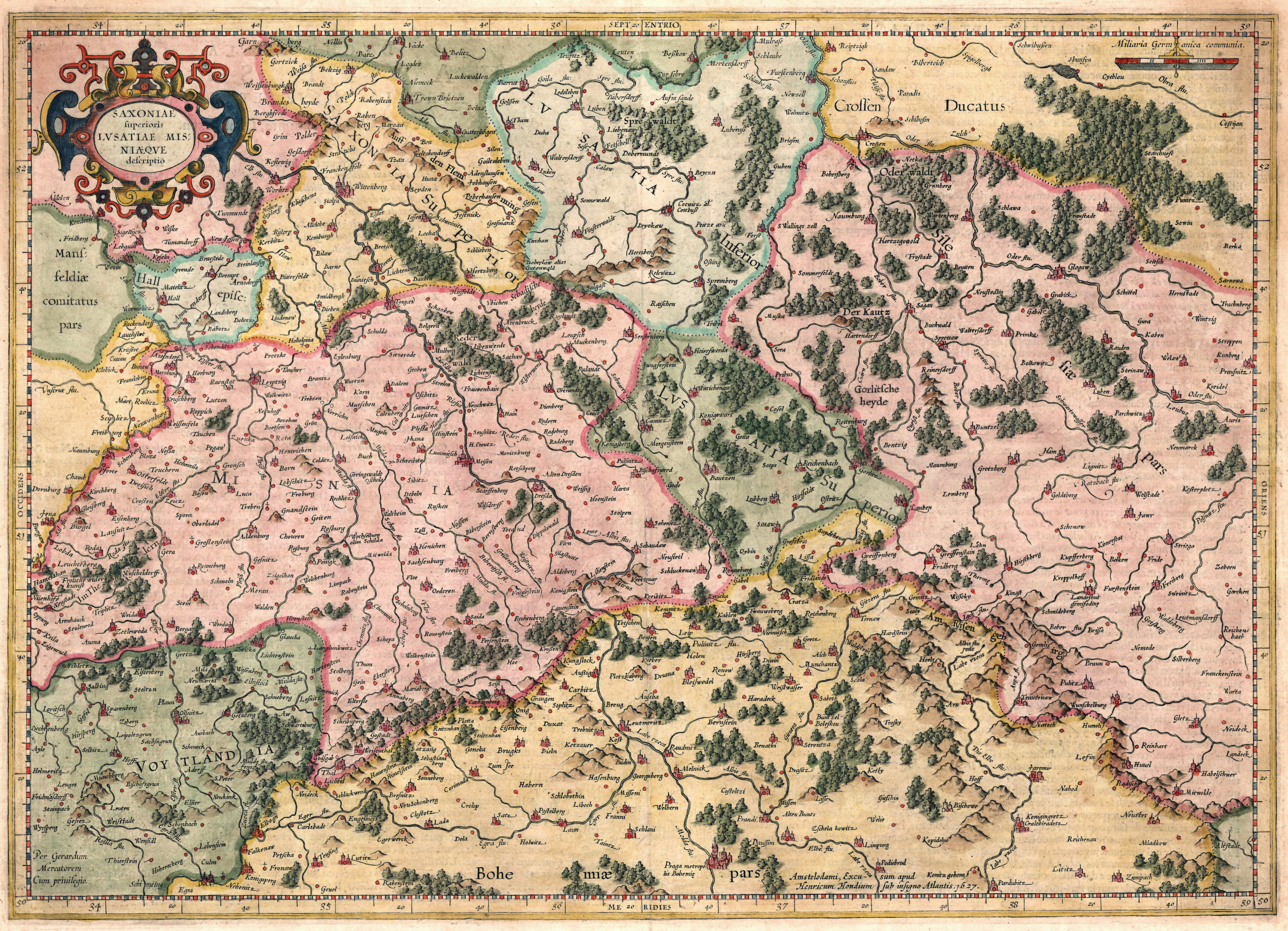 Description of Upper Saxony, Lusatia and of Meissen